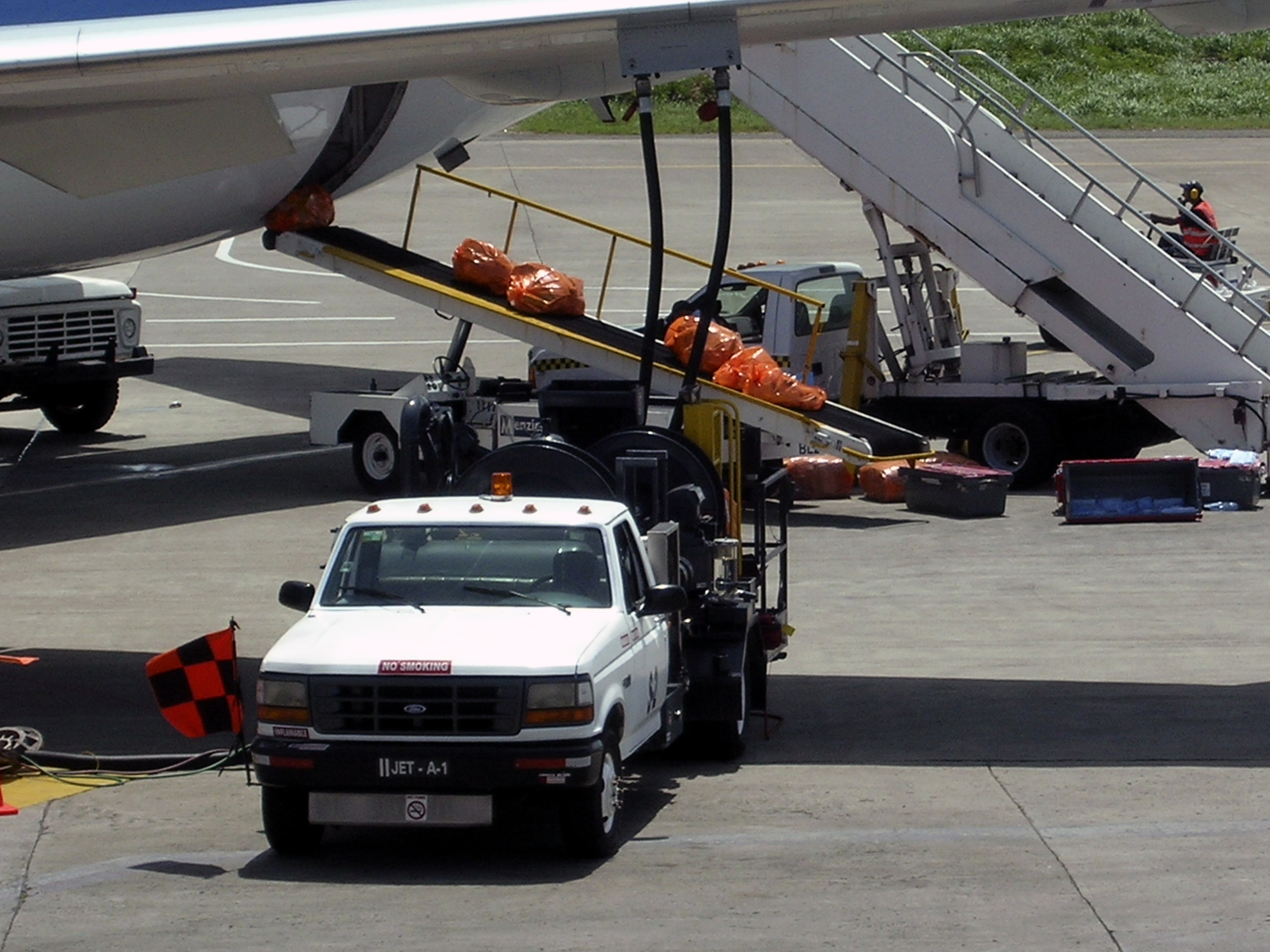 Ground crew tending to an aircraft.